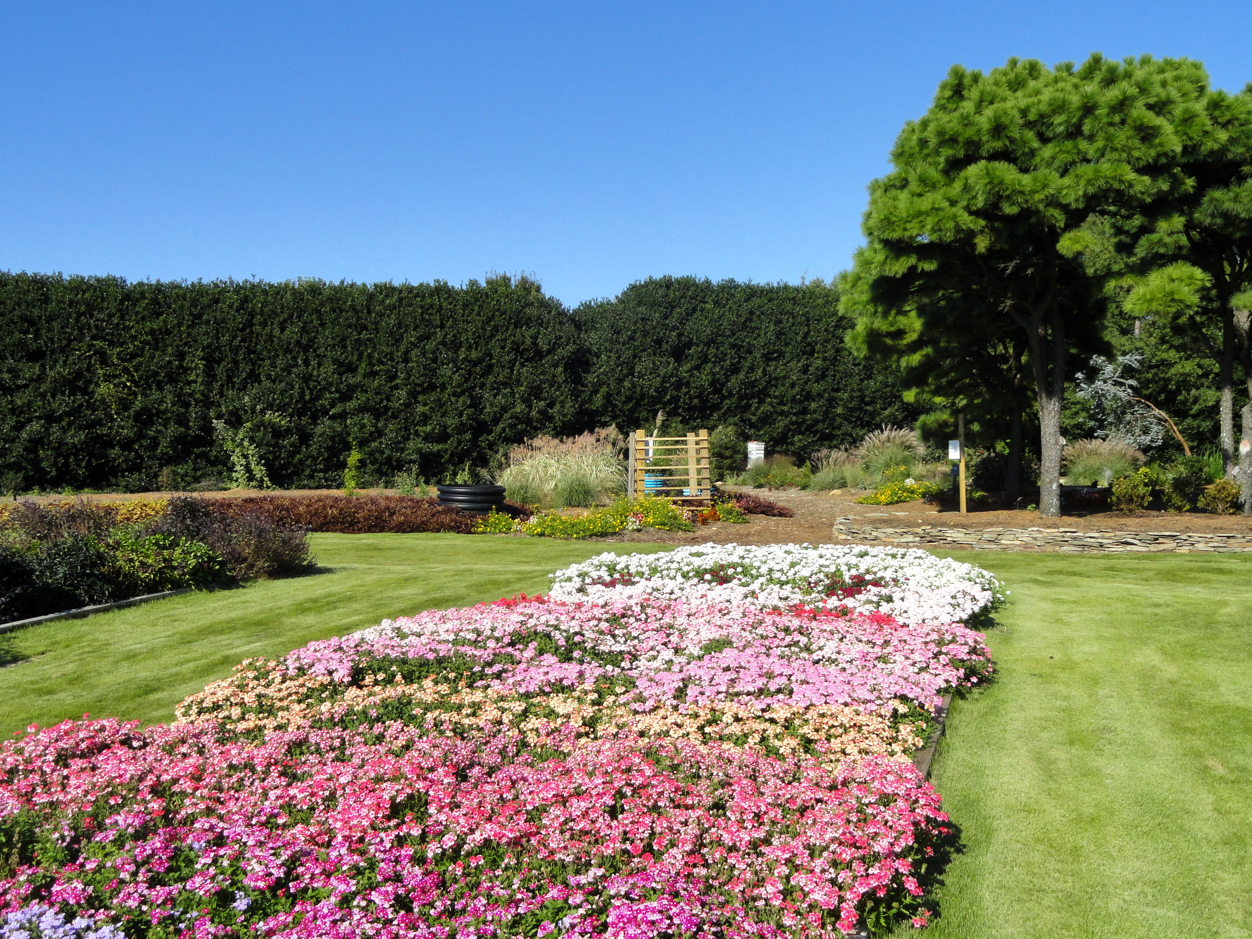 General view of the J. C. Raulston Arboretum (North Carolina State University), 4415 Beryl Road, Raleigh, North Carolina, USA.